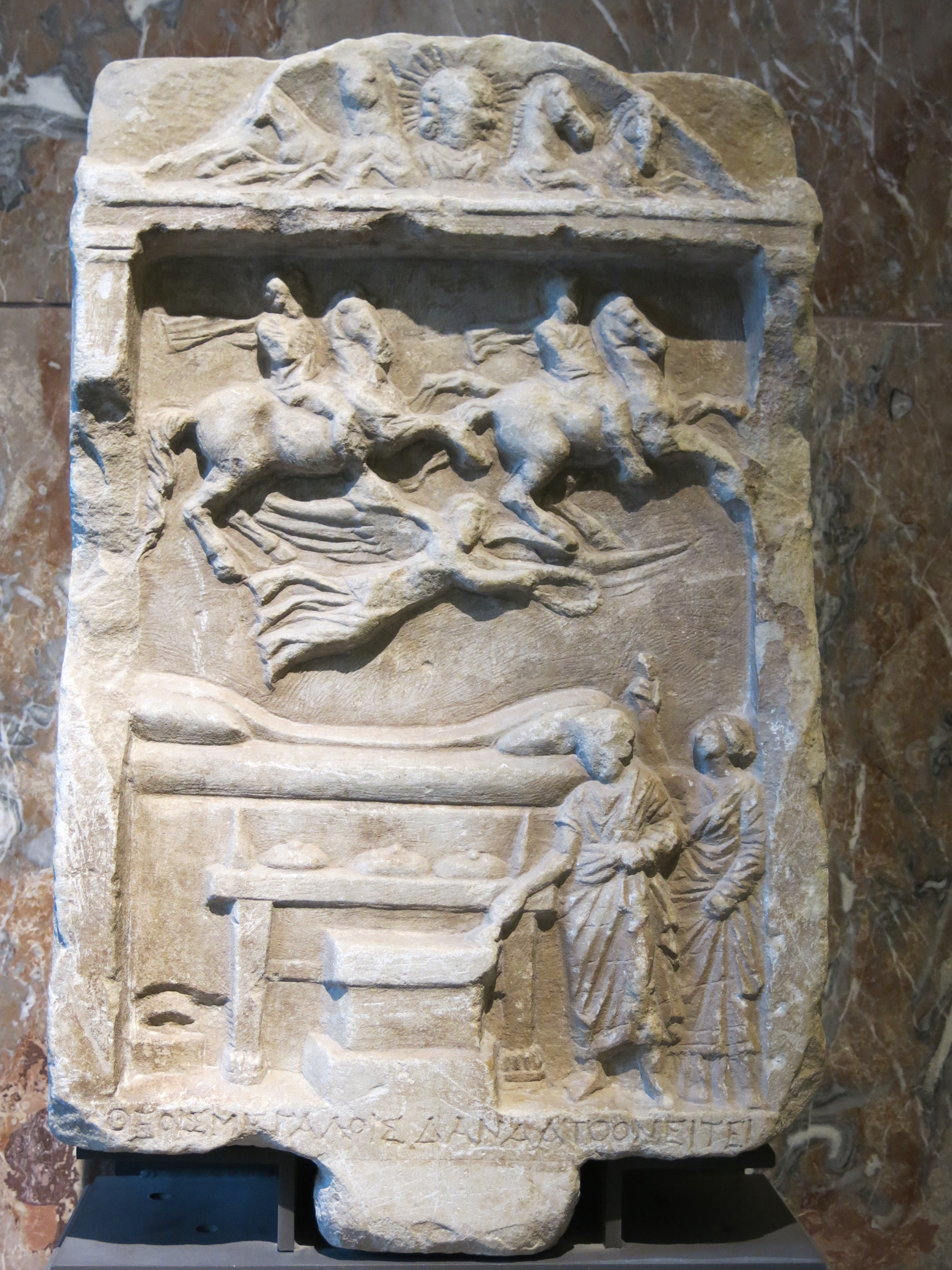 Votive relief with the Dioscury. In the pediment, the four-horses cart of Helios, god of the sun, with a bust surrounded by rays and four forward parts of horses. In the upper part of the relief, the Dioscuri (Castor and Pollux) on horses above a flying Victory. In the lower part, a bed and a dinner table. A couple prays gods. Under the relief, the inscription : To the Great Gods, Danaa, daughter of Aphtonétos. Marbor, 2nd century BC, Larissa (Thessalia, Greece). Heuzet-Daumet mission 1861. Louvre museum (Paris, France). Ma 746.